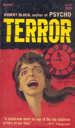 Cover of "Terror" by Robert Bloch. Illustration by Jerome Podwil.